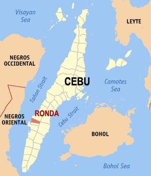 Map of Cebu showing the location of Ronda